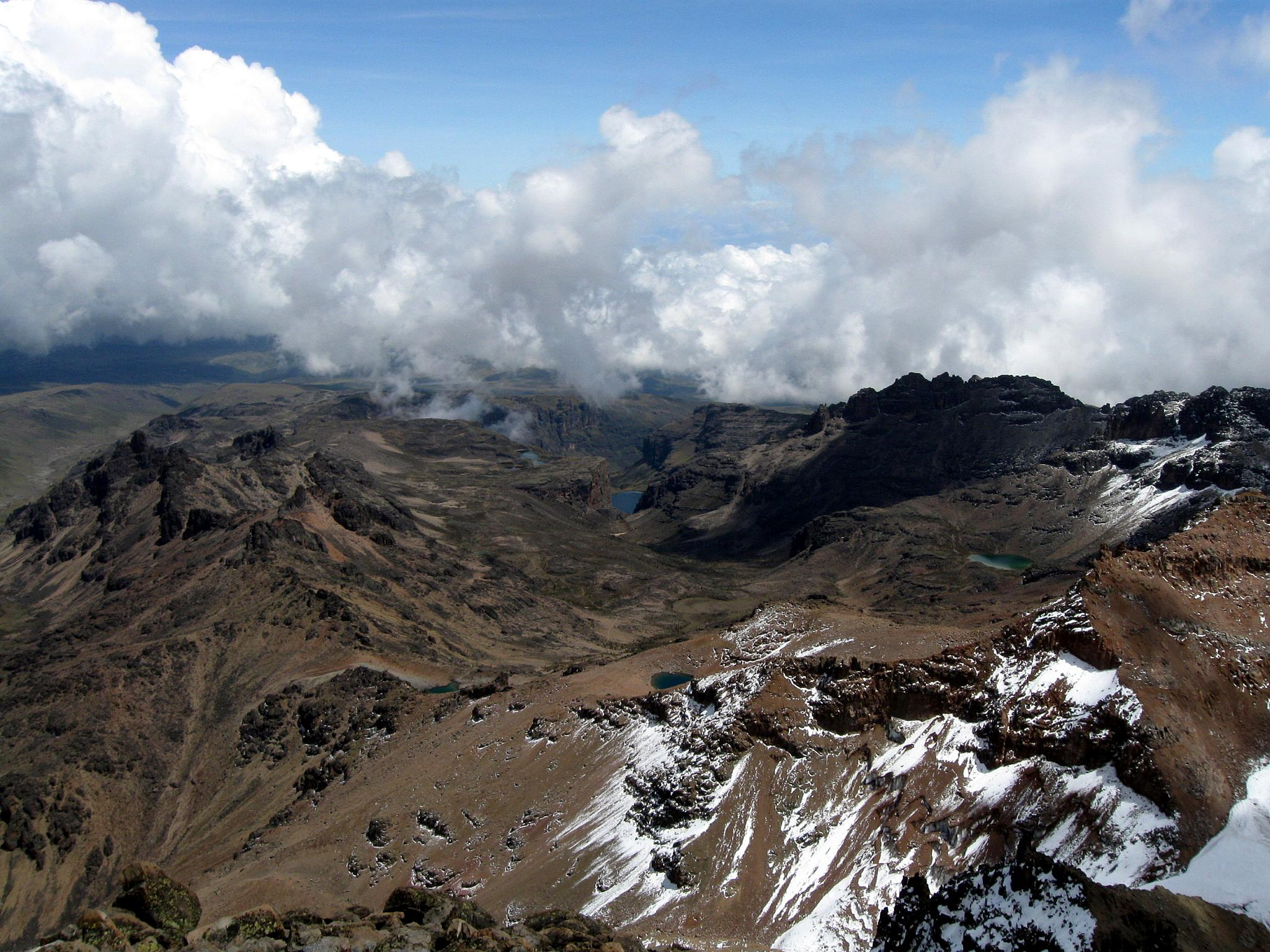 from the top looking to the way back through Chogoria valley from high on Nelion, Mount Kenya.